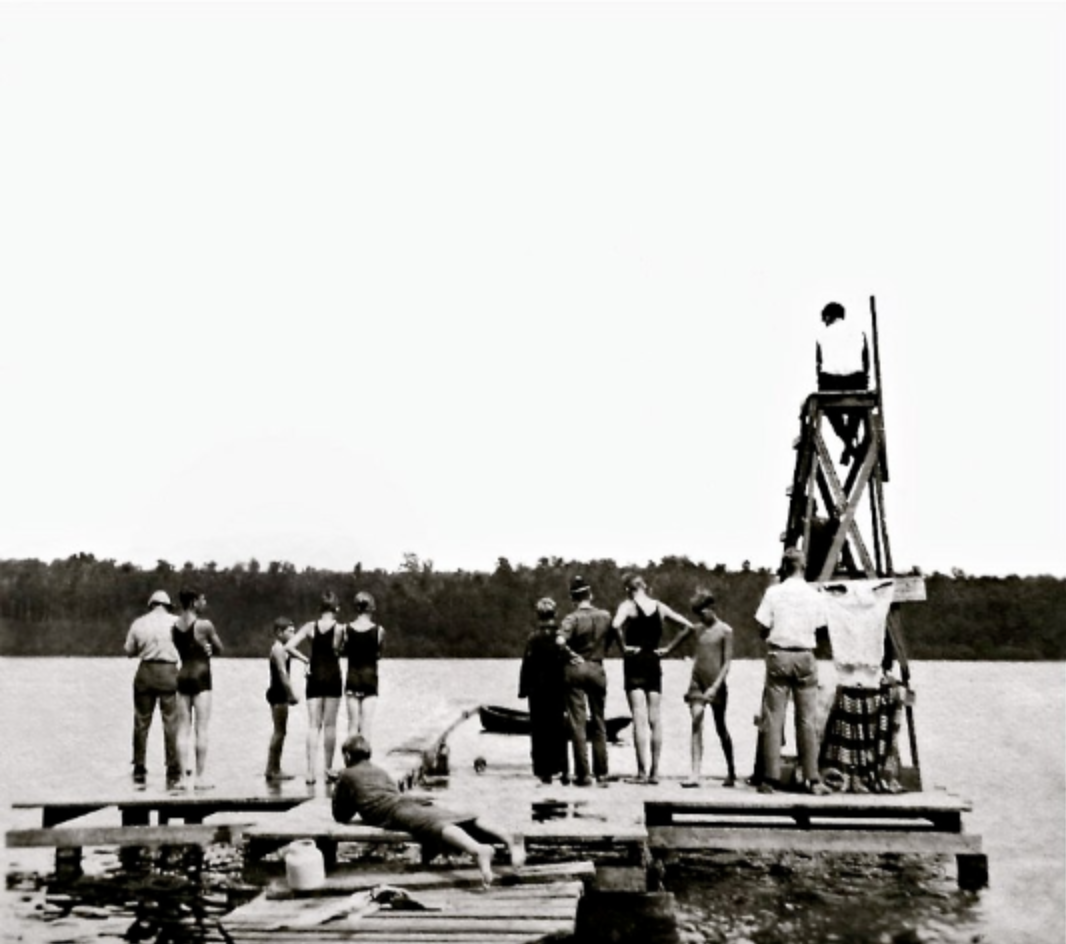 Campers standing on a dock and swimming in a lake at Camp Highlands' "Tent Ten", circa 1915